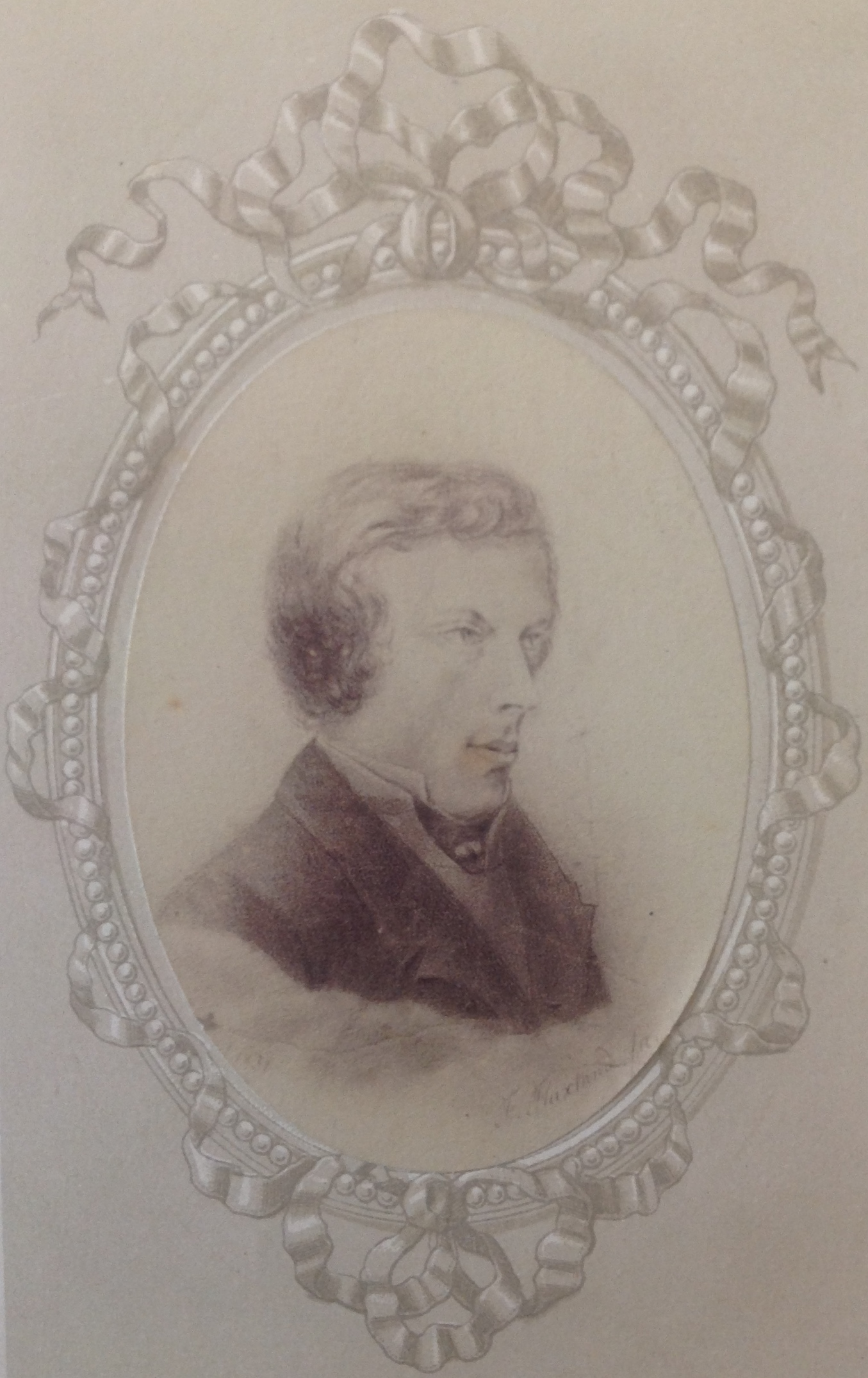 Portrait of Frédéric Ferdinand Braun (1812-1854), Signed: F. Flaxland (cf. Frédéric Joseph Flaxland, 1814-1883?). On the back: Frédéric Ferdinand Braun (in manuscript), A la Pomme de Pin, Ch. Kusian, Photographe, Place Kléber, Strasbourg